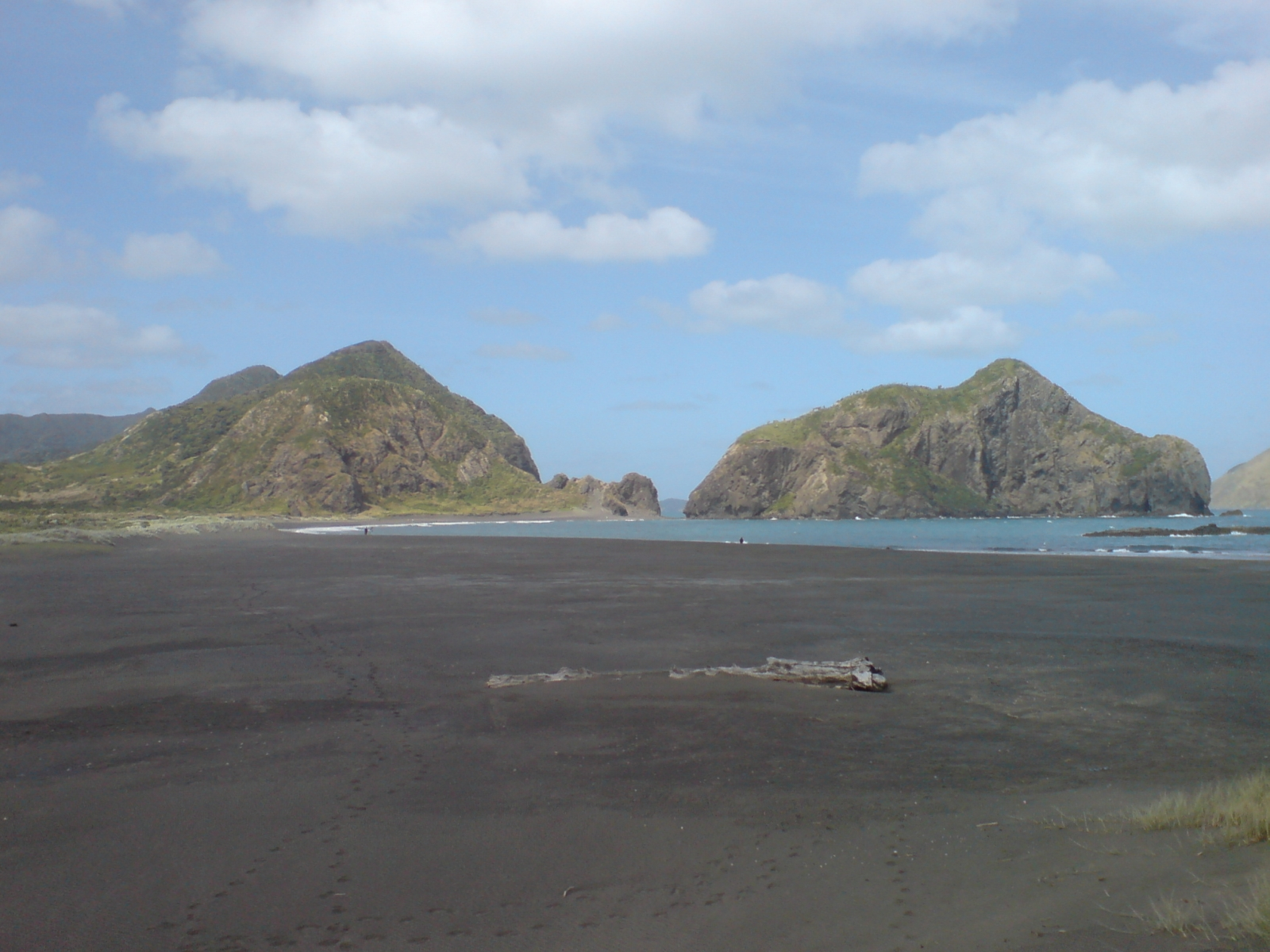 Whatipu Beach (actually not Whakatipu Beach as stated erroneously), an ironsand (?) beach at the mouth of the Manukau Harbour, southwest edge of the Waitakere Ranges, New Zealand. Looking east.